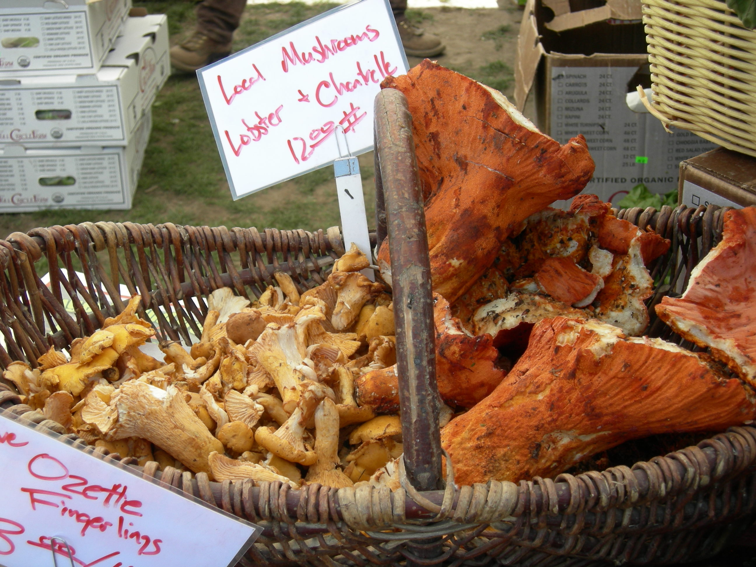 Chanterelle mushrooms (likely Cantharellus formosus, left) and lobster mushrooms (Hypomyces lactifluorum, right), Seattle Tilth Harvest Festival, Meridian Park (adjacent to the Good Shepherd Center), Wallingford, Seattle, Washington. Technically, a Lobster mushroom is not itself a mushroom: it is a parasitic fungus that grows on other mushrooms, turning them a reddish orange color.